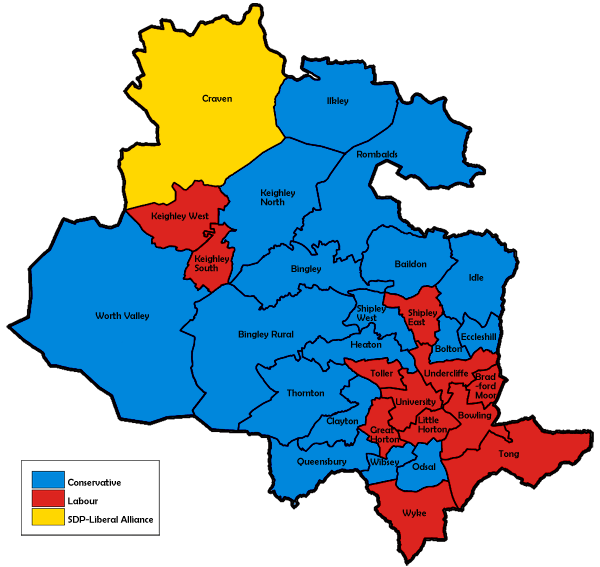 Ward map of Bradford Council with political colouring for the 1987 election.